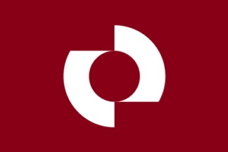 Flag of Izumozaki Niigata